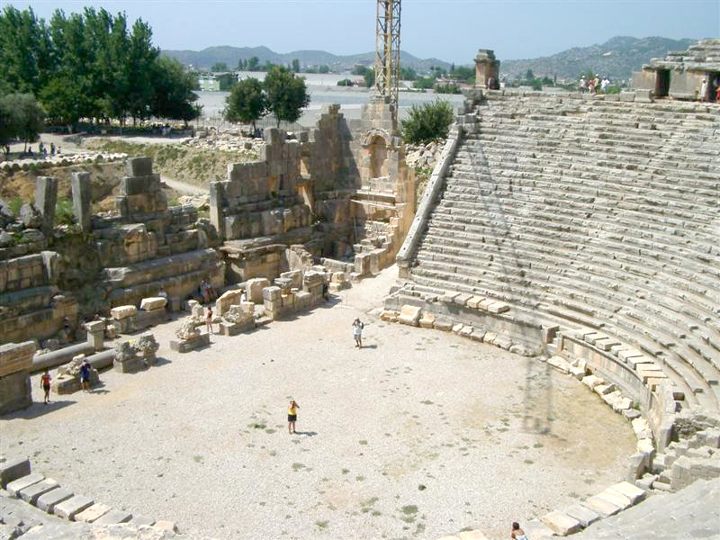 Ancient Roman theatre in Myra, Lykia, Turkey